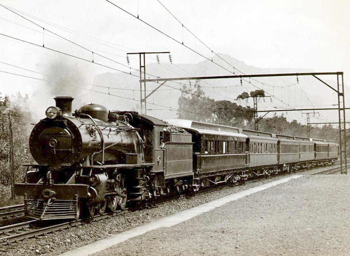 SAR Class 10CR 778 (4-6-2) Ex CSAR 1014 Location: Woltemade No. 4 (Between today’s Thornton and Goodwood stations)